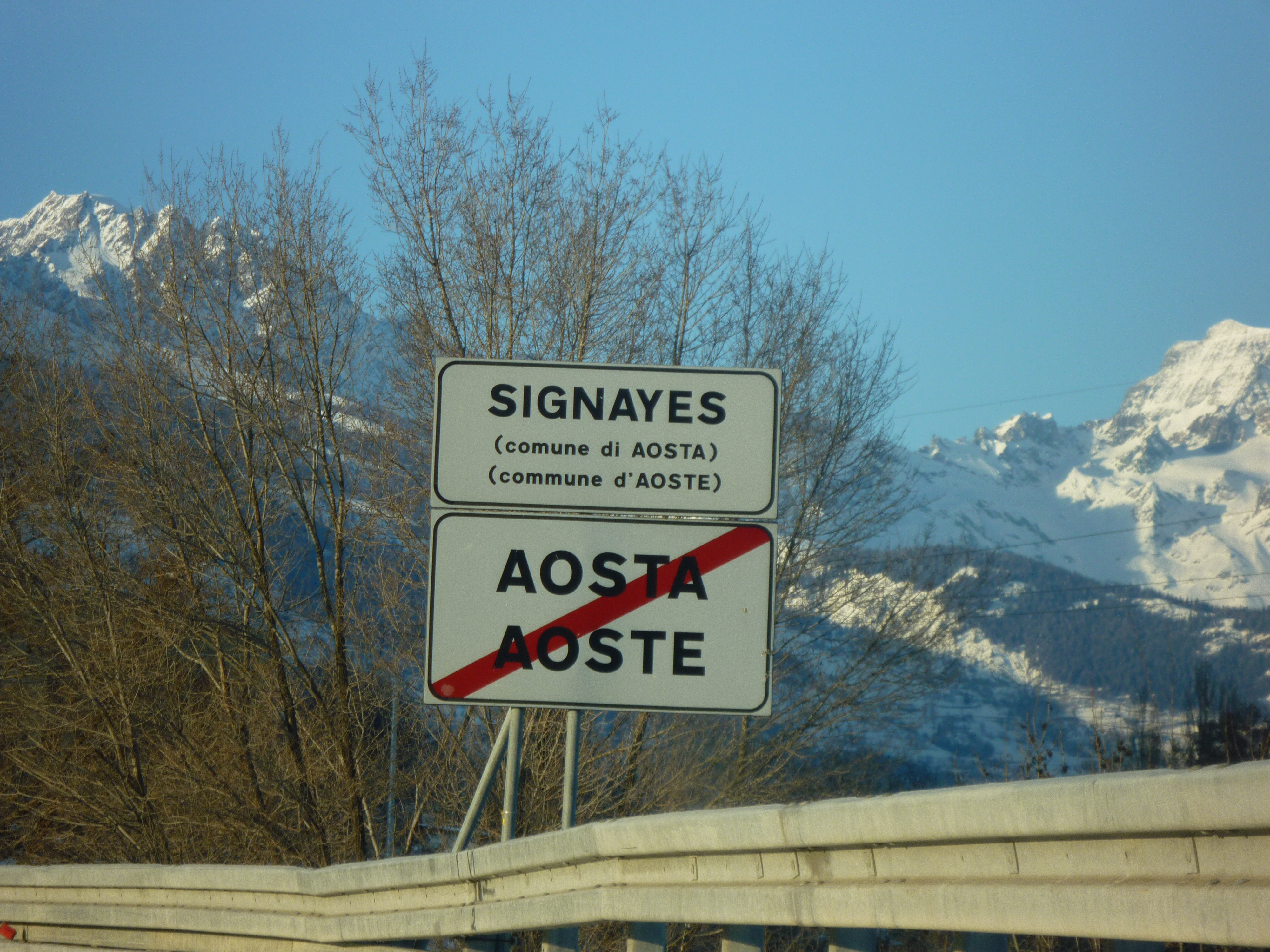 Bilingual road sign in Signayes (Aosta Valley - Italy)